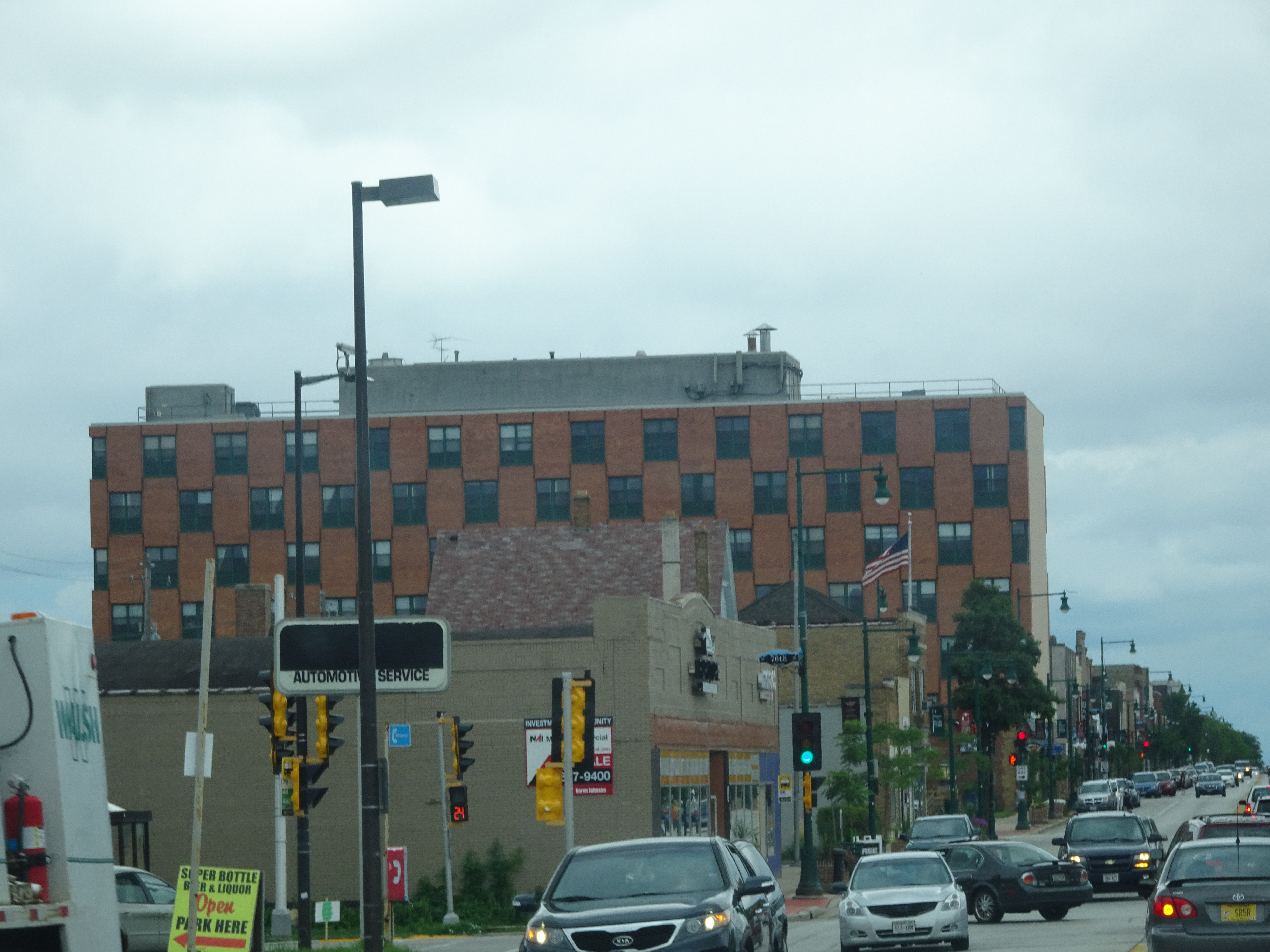 Downtown West Allis